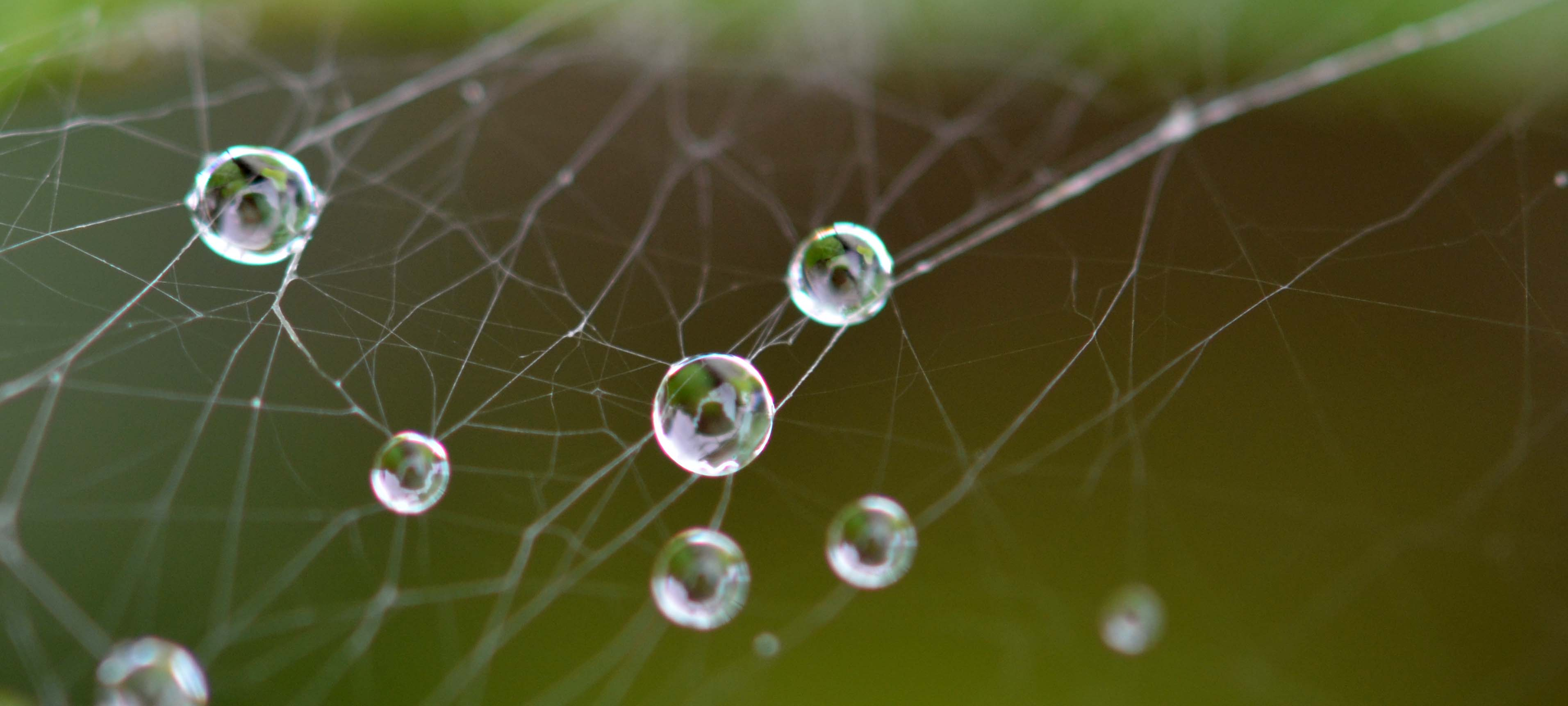 Accumulation of rain drops (mist) on a spider web, close to the ground at the edge cliff-beach in Brittany (Bay of Douarnenez), after a few hours of light rain